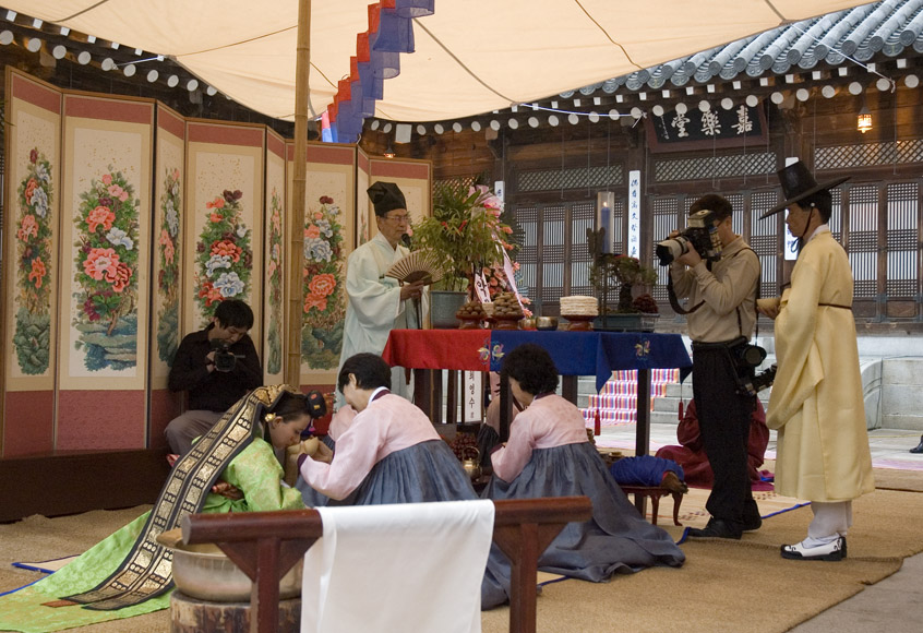 A traditional Korean wedding at Korea House, Seoul, South Korea